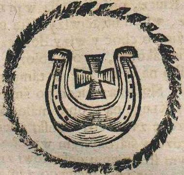 Jastrzębiec coat of arms by Wacław Potocki